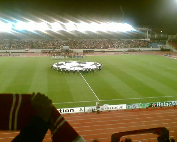 Before the Slavia Praha-Steaua Bucuresti game, 19 September 2007 at Stadion Evzena Rosickeho, Prague 6, Strahov.